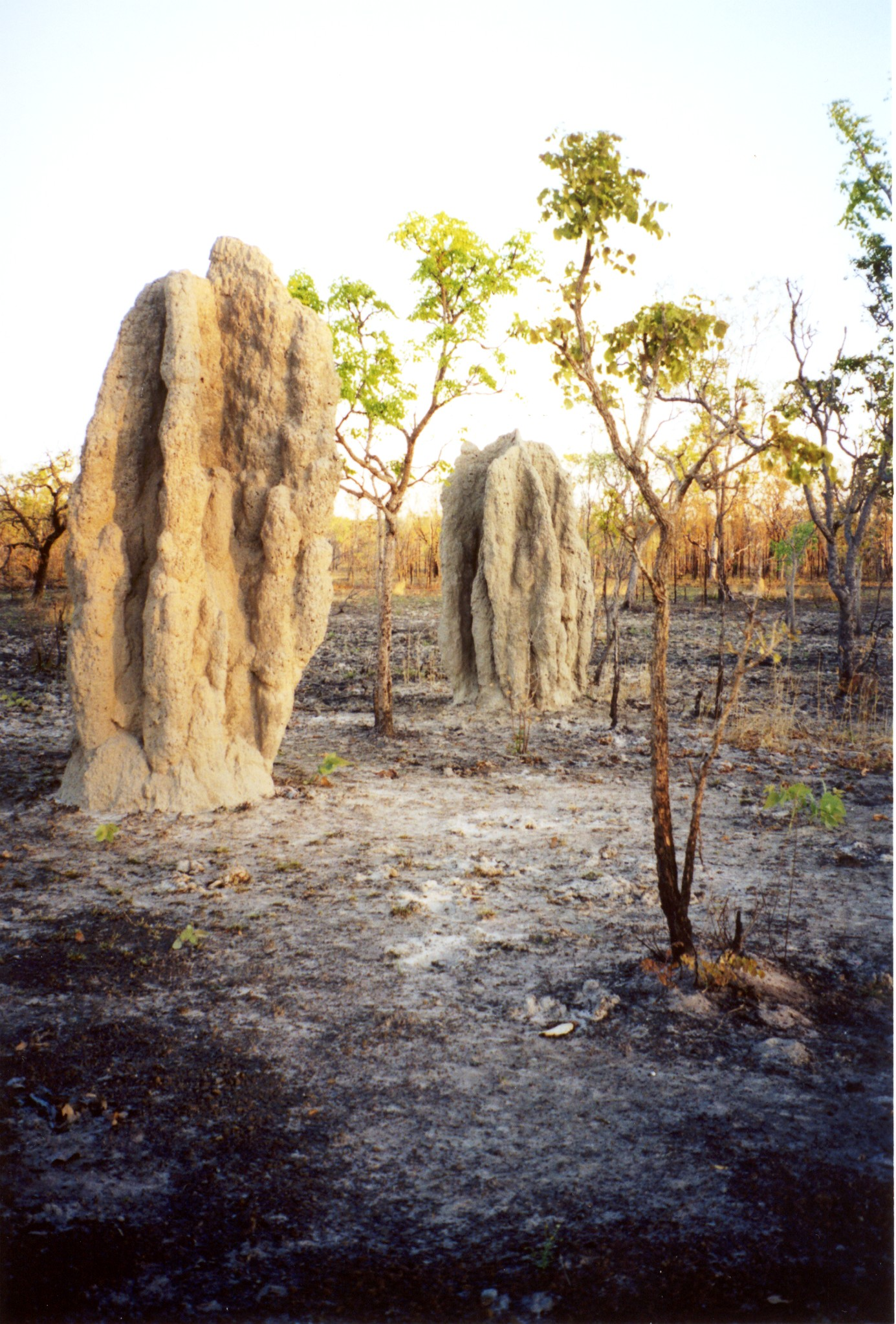 Photograph of two termite cathedral mounds in a tropical savanna blackened by bushfireen in Kakadu National Parken.